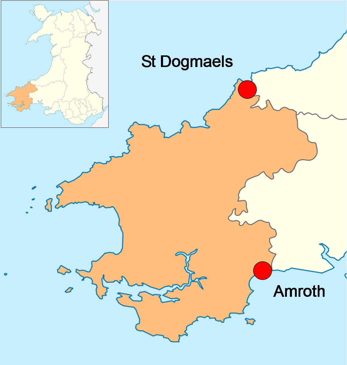 Pembrokeshire, showing the coastline, and the end points of the trail